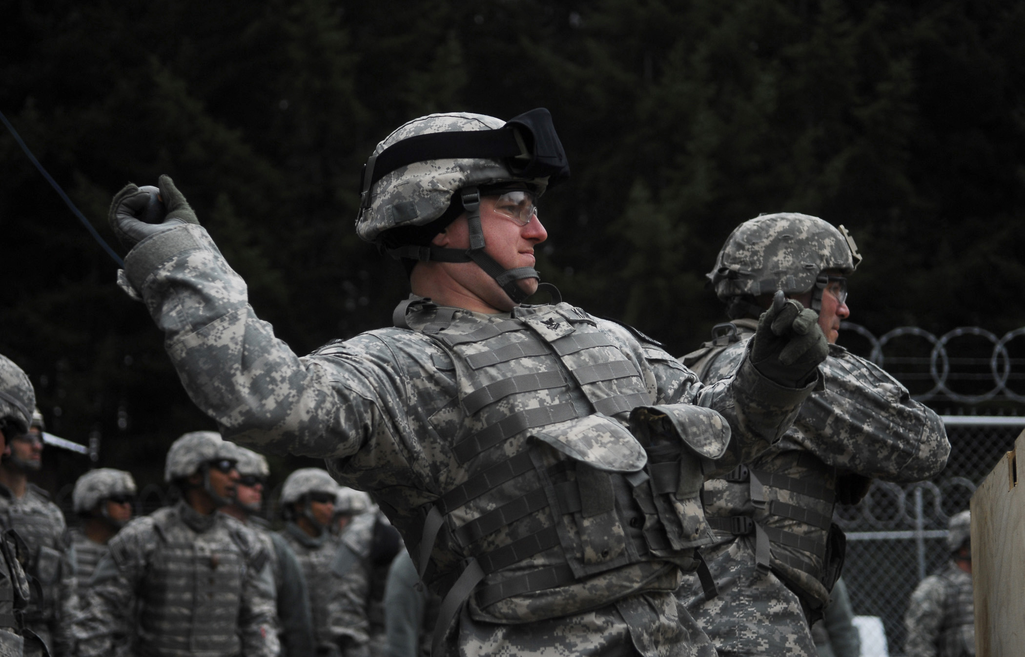 FORT LEWIS, Wash. (May 2, 2010) Hospital Corpsman 2nd Class Douglas Knapp, from Renton, Wash., tosses a training grenade during an Army Warrior training course. The training is part of a month-long pre-deployment course for Sailors deploying to Iraq and Afghanistan. (U.S. Navy photo by Mass Communication Specialist 2nd Class Walter M. Wayman/Released)